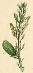 Stainton’s Natural History of the Tineina (1855–1873): Phyllonorycter staintonella sprig of Genista pilosa, with two mined leaves